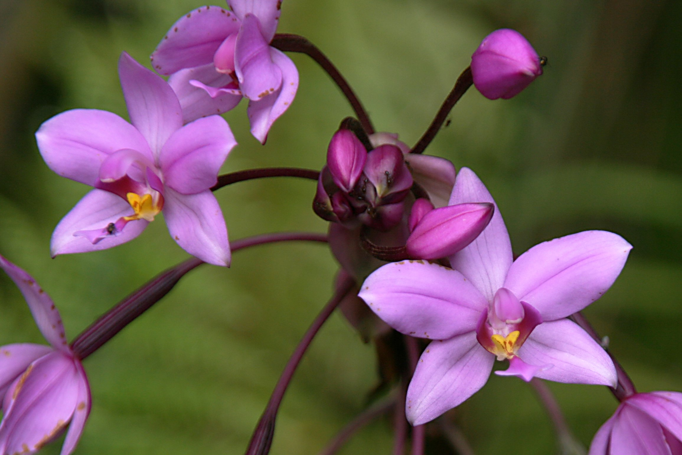 Orchidaceae Spathoglottis Plicata, island of Fatu Iva, Marquesas islands, French Polynesia.